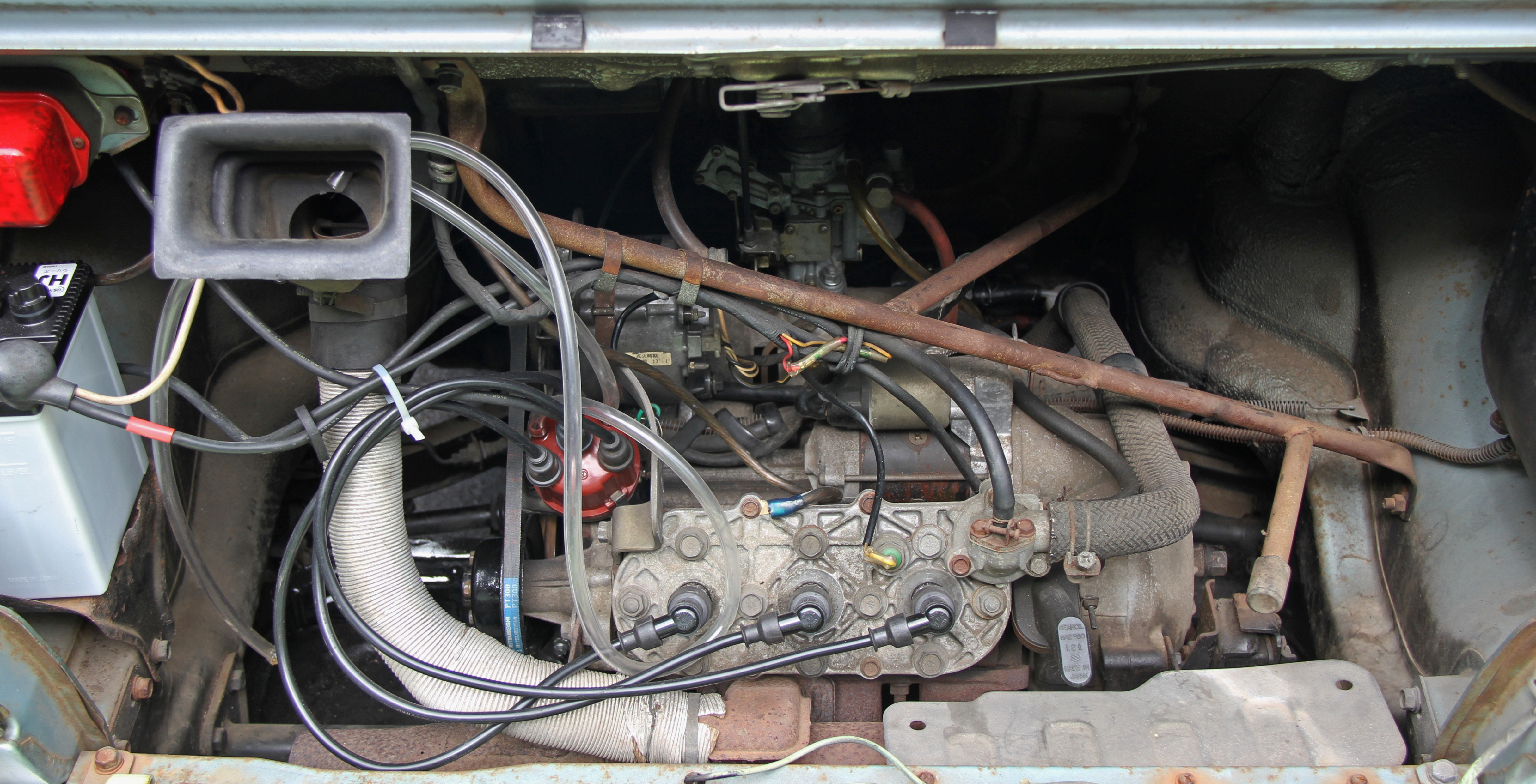 Suzuki Fronte GO/W